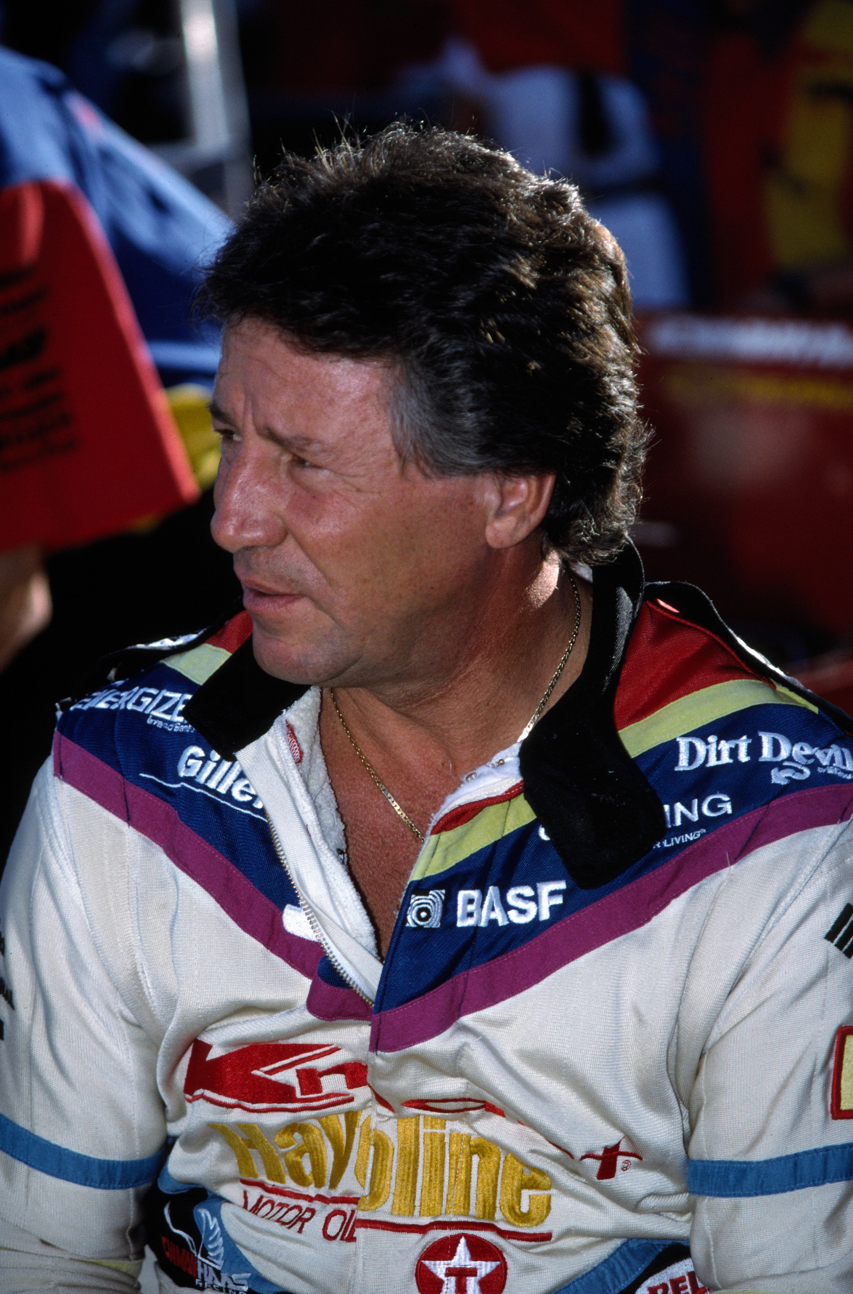 Mario Andretti at the 1991 Monterrey Grand Prix, CART